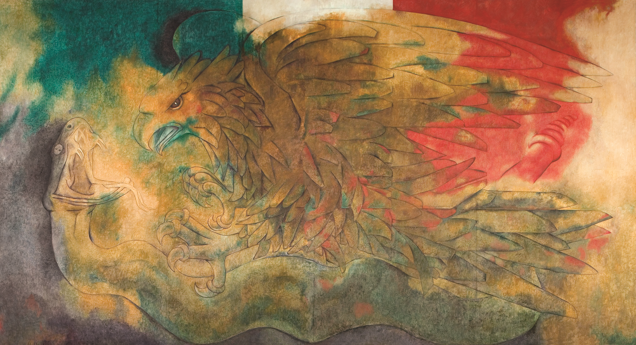 La Lucha Eterna de México (Mérida)